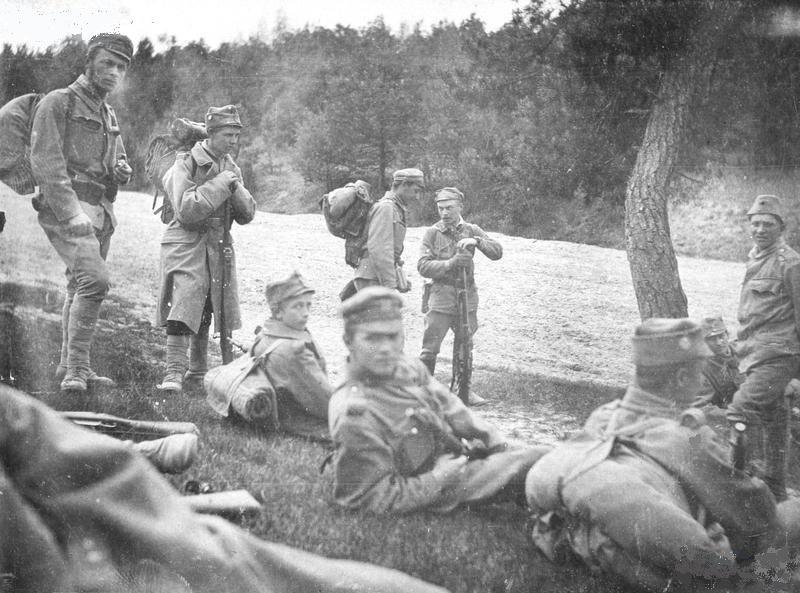 captain Kazimierz Herwin-Piątek in Konary among resting soldiers